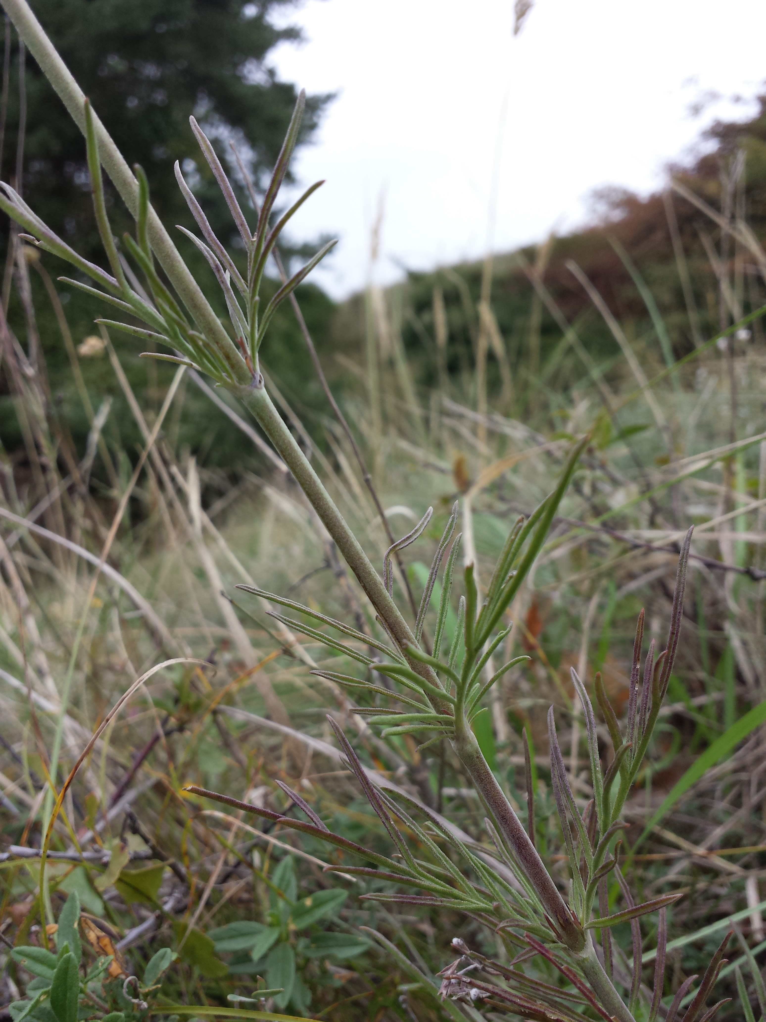 Stipe with leaves Taxonym: Scabiosa canescens ss Fischer et al. EfÖLS 2008 ISBN 978-3-85474-187-9 Location: Haulesbergen, district Mistelbach, Lower Austria - ca. 200 m a.s.l. Habitat: dry grassland